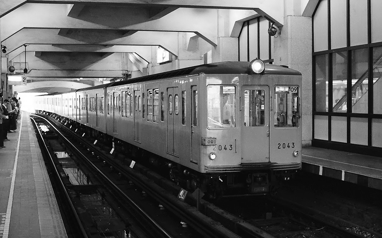 A TRTA Ginza Line 2000 series EMU at Shibuya Station